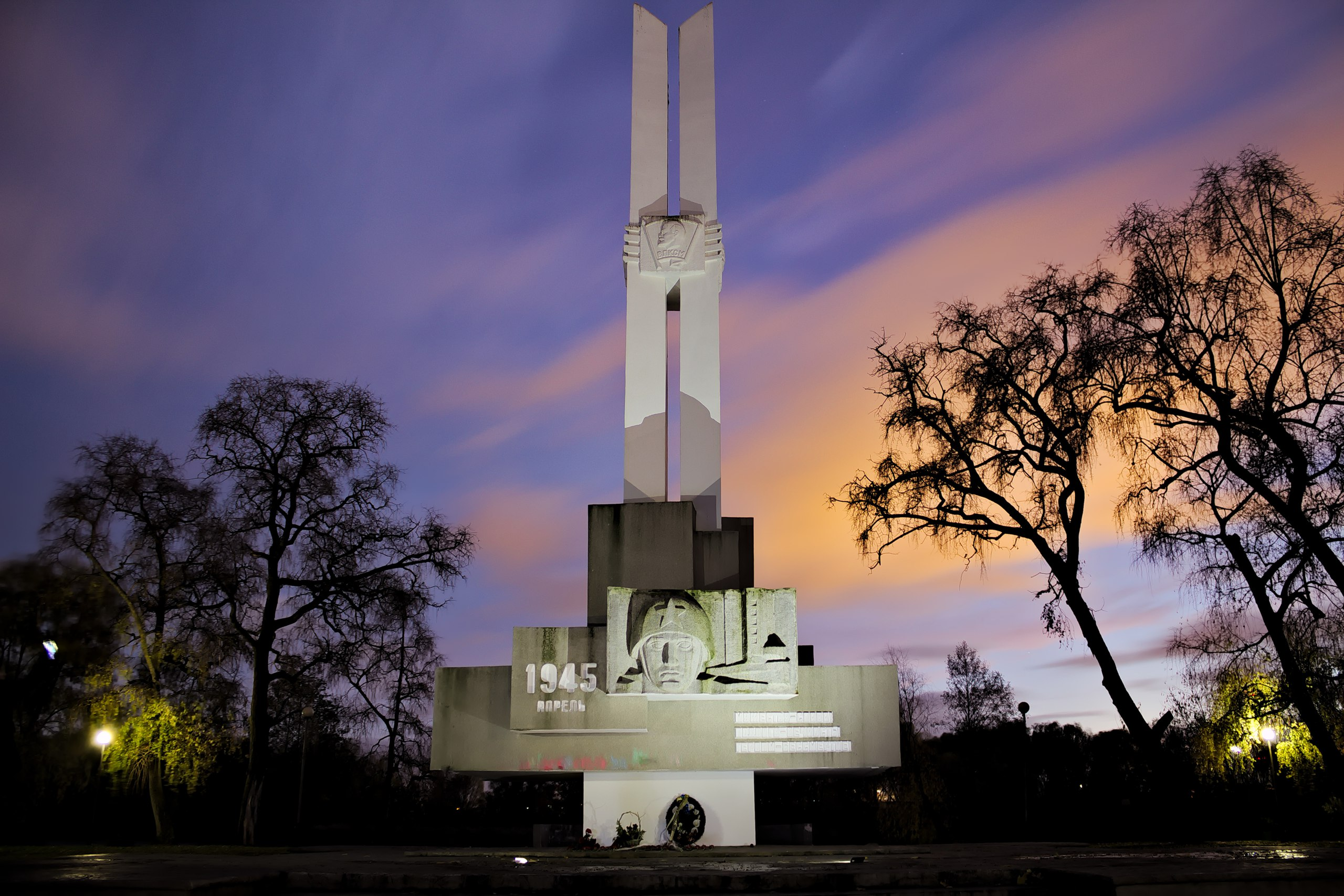 Heroes of Communist Youth Monument in Kaliningrad, Russia